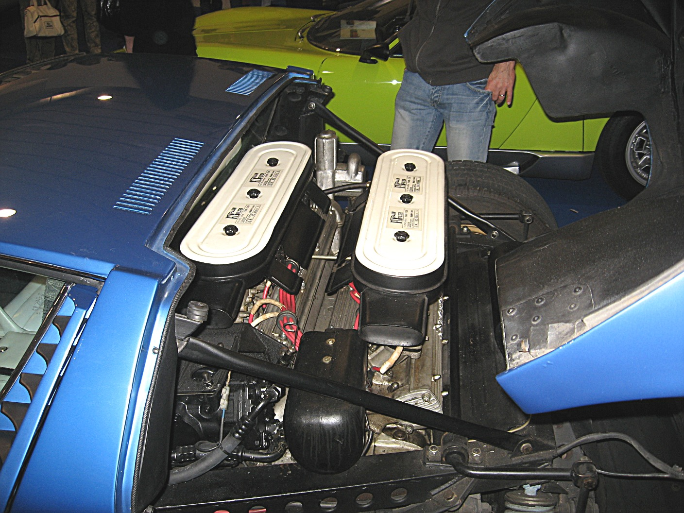 Subject: Lamborghini V12 engine in a Lamborghini Miura Date: October 26th, 2008 Event: Auto e Moto d'Epoca 2008 Place/Country: Padova, Italy I release all rights in the public domain.